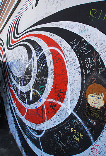 Photograph of Elliott Smith Tribute "Figure 8" Wall